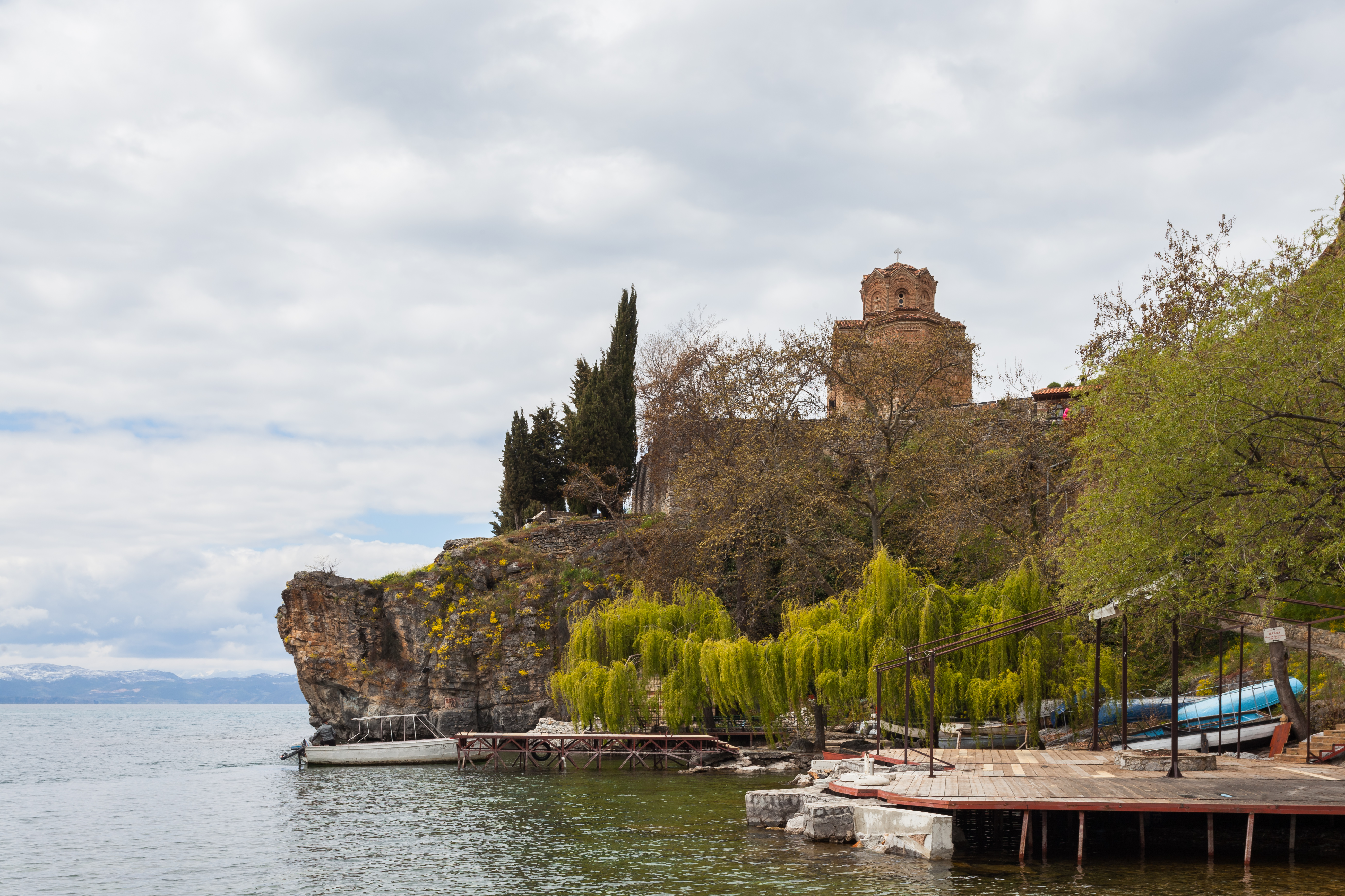 St John Kaneo church, Ohrid, Macedonia